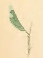 Stainton’s Natural History of the Tineina (1855–1873): Luquetia lobella